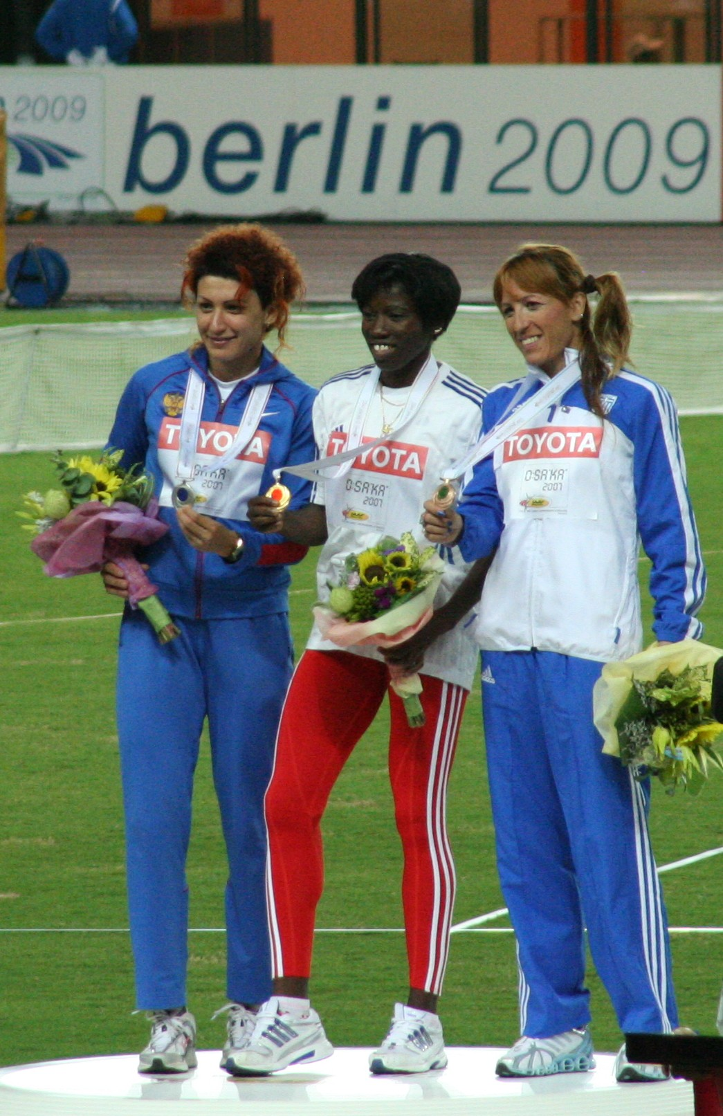 World Athletics Championships 2007 in Osaka - Victory ceremony for the women*s triple jump: Tatyana Lebedeva, Yargelis Savigne, Hrysopiyí Devetzí